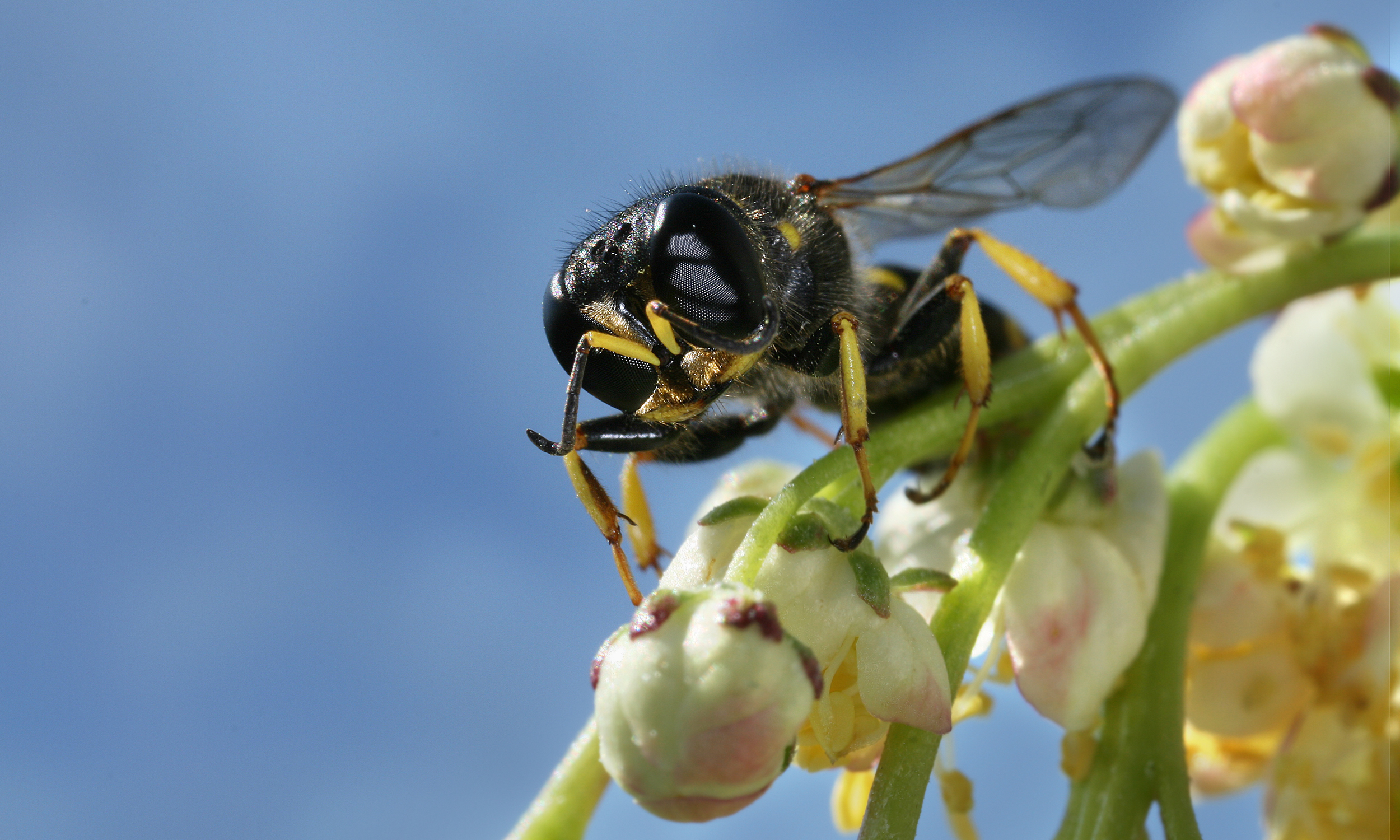 Description: A digger wasp (Ectemnius lapidarius).Hymenoptera (Hi-men-op-tura) is one of the larger orders of insects, comprising the sawflies, wasps, bees, and ants. The name refers to the membranous wings of the insects, and is derived from the Ancient Greek ὑμήν (humẽn): membrane and πτερόν (pteron): wing. The hindwings are connected to the forewings by a series of hooks called hamuli.